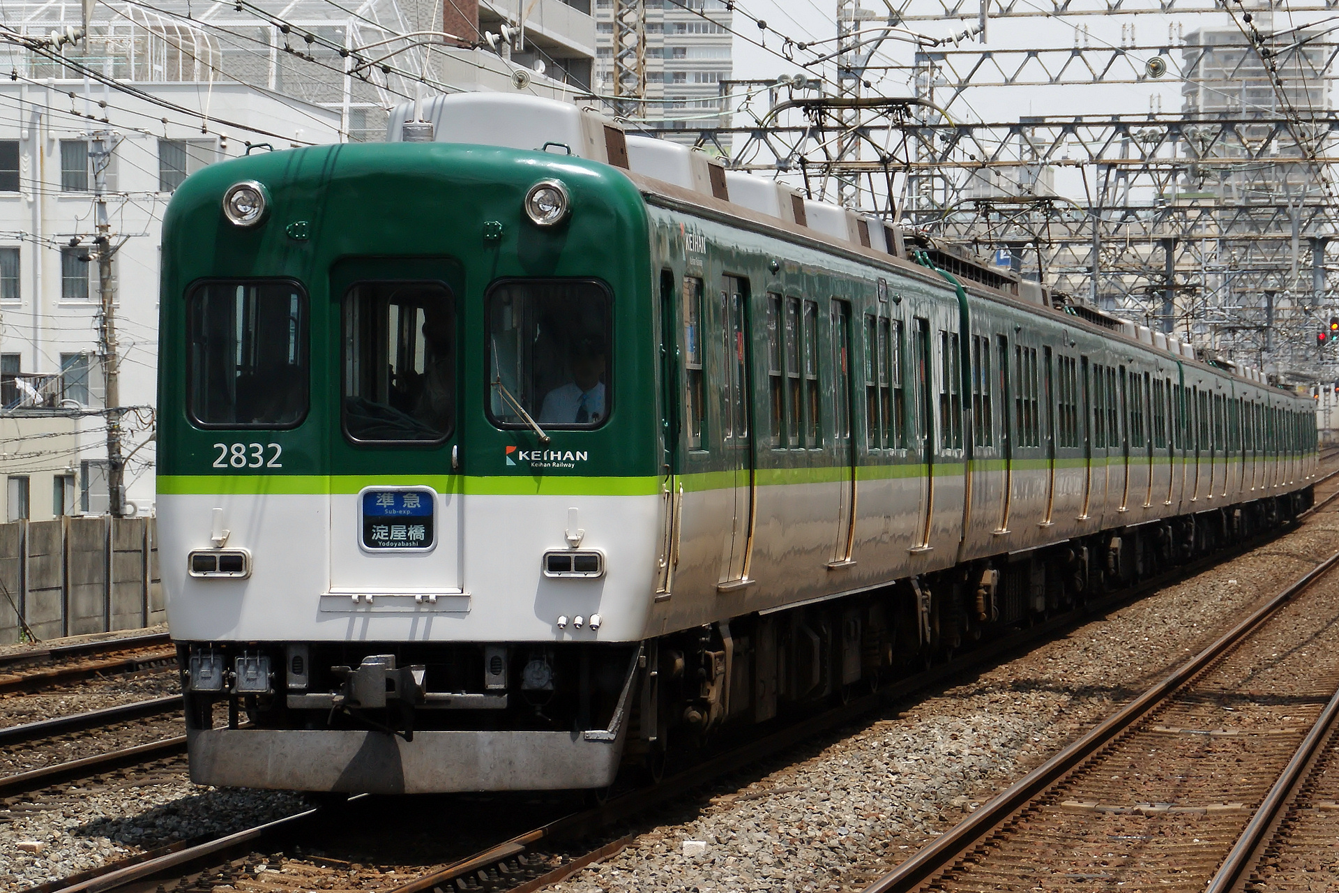 Keihan Electric Railway 2600 series EMU set 2632 approaching Doi Station in Osaka Prefecture, Japan